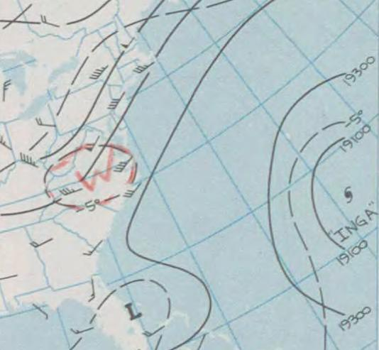 Surface weather analysis of Hurricane Inga on 3 October 1969.